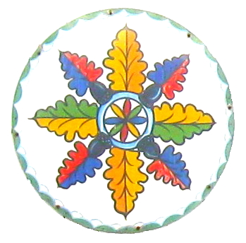 Hex sign from Pennsylvania barn: stylized white oak leaves in fall colors and acorns.